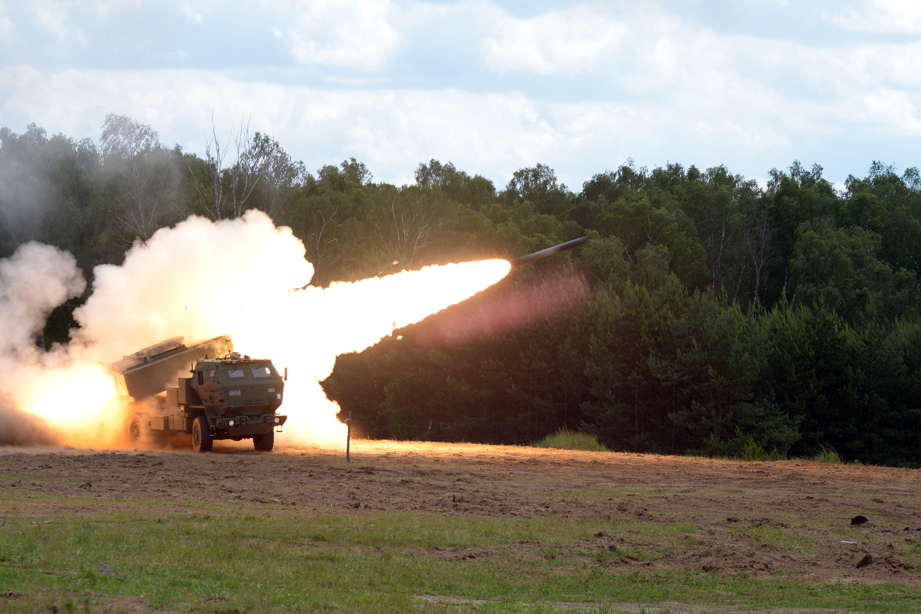 Soldiers assigned to the 5th Battalion, 113th Field Artillery Regiment (High Mobility Artillery Rocket System), North Carolina Army National Guard, fire a M142 HIMARS light multiple rocket launcher during a live fire exercise at Drawsko Pomorski Training Area, Poland, during Exercise Anakonda 16 June 14, 2016. AN16 is one of U.S. Army Europe’s premier multinational training events. It is a Polish national exercise that seeks to train, exercise, and integrate Polish national command and force structures into an Allied, joint, multinational environment. (U.S. Army National Guard photo by Sgt. 1st Class Robert Jordan)